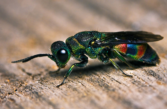 I took this photo with CanonEOS40D photocamera, Kenko extention tubes + CanonEF100mmMacroUSM lens + home made flash diffuser. I captured this image last summer. Please have a view of full size... Thanks :)